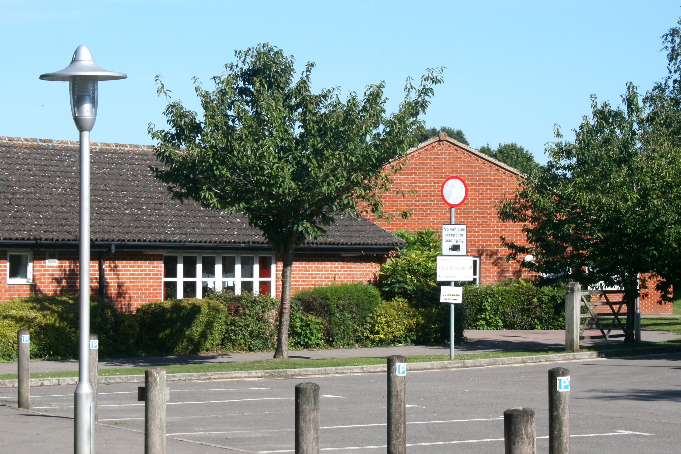 Watlington Primary School, Watlington Oxfordshire England, main entrance (southeasterly aspect), taken July 2020